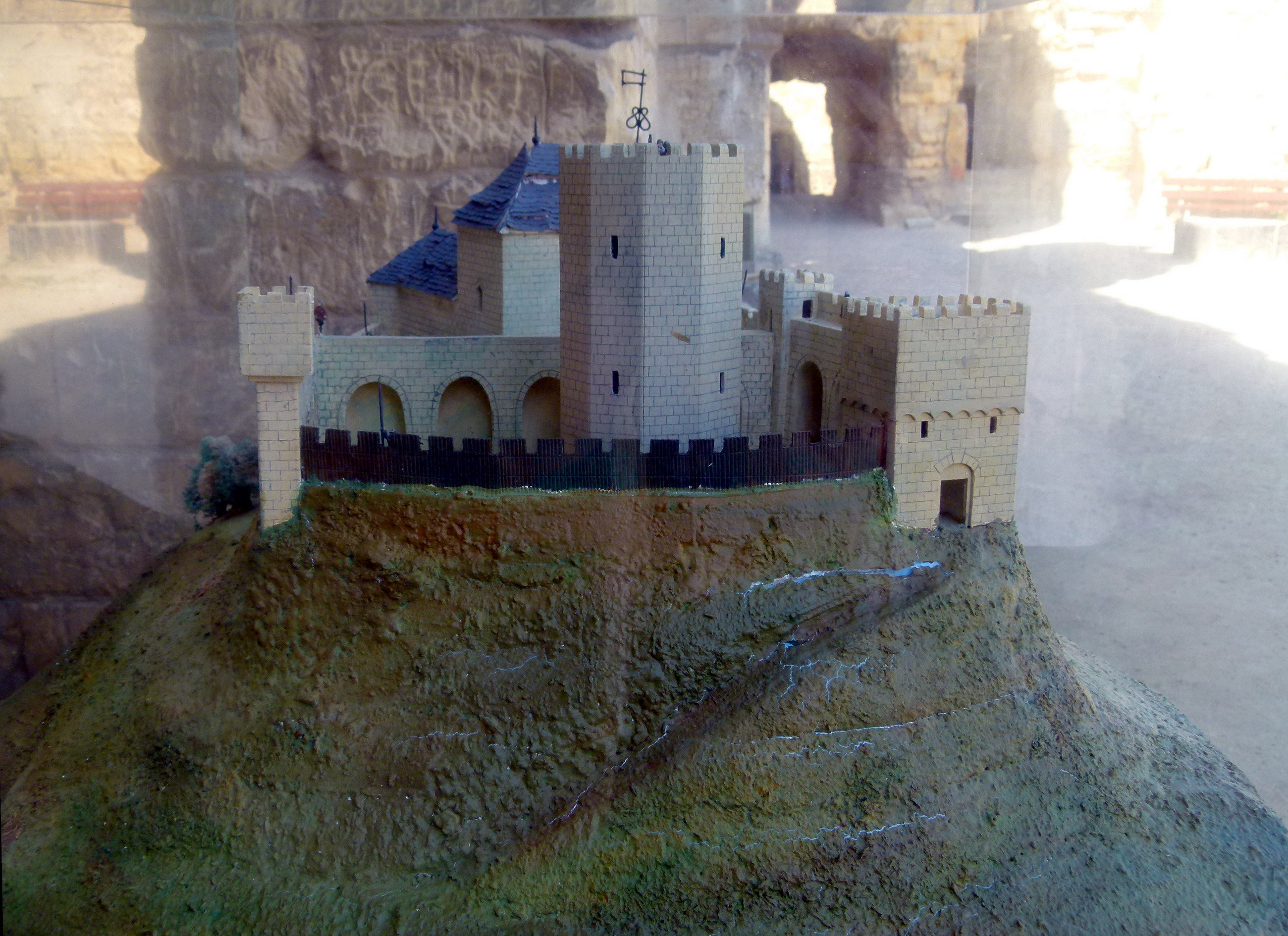 Valkenburg, Limburg, the Netherlands. Model of Valkenburg Castle at an earlier stage (stage 3, ca 1250), exhibited in the ruined knights' hall of the castle.